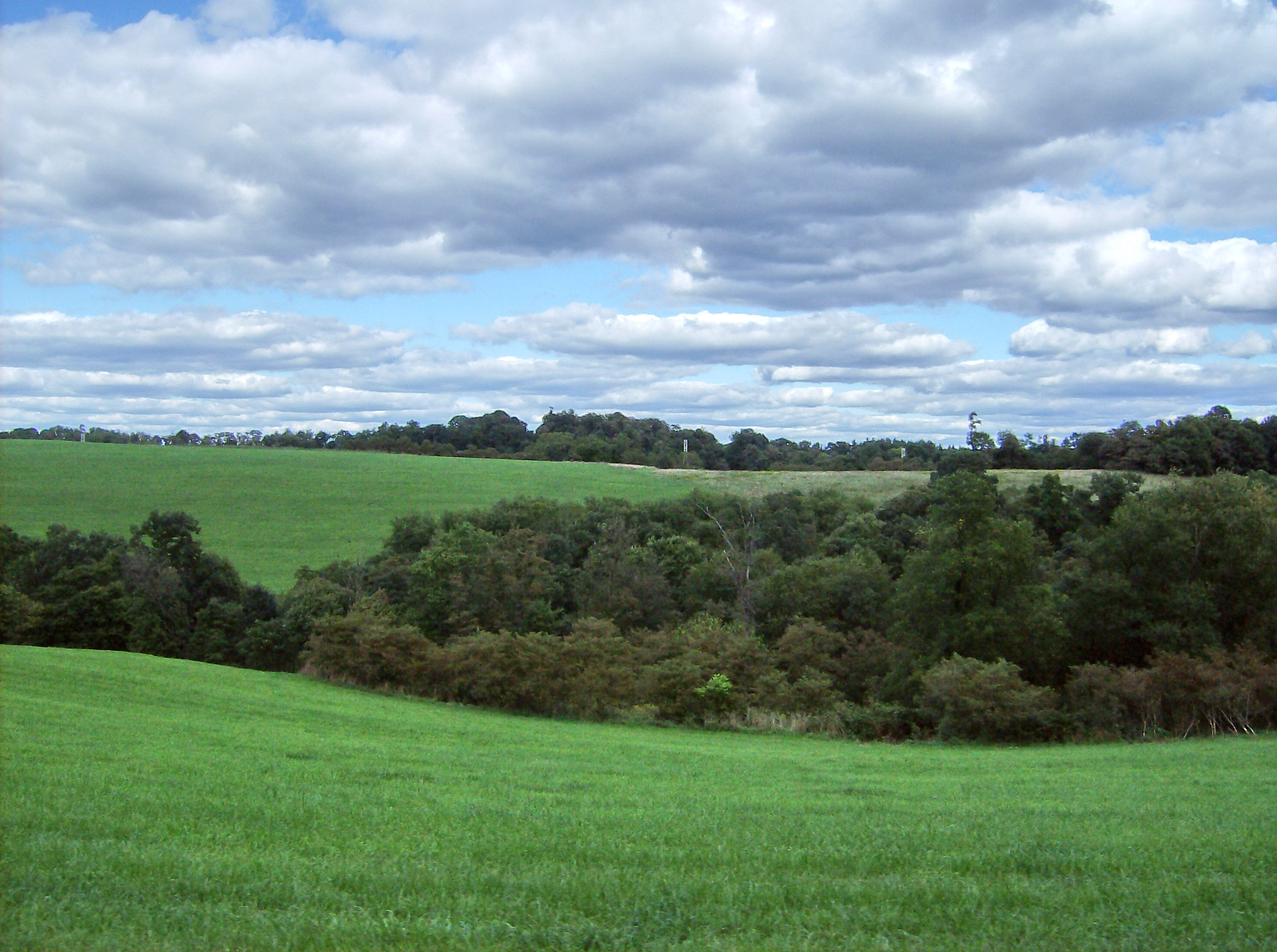 View northeastward from State Route 43 into a valley in central Lee Township, Carroll County, Ohio, United States.